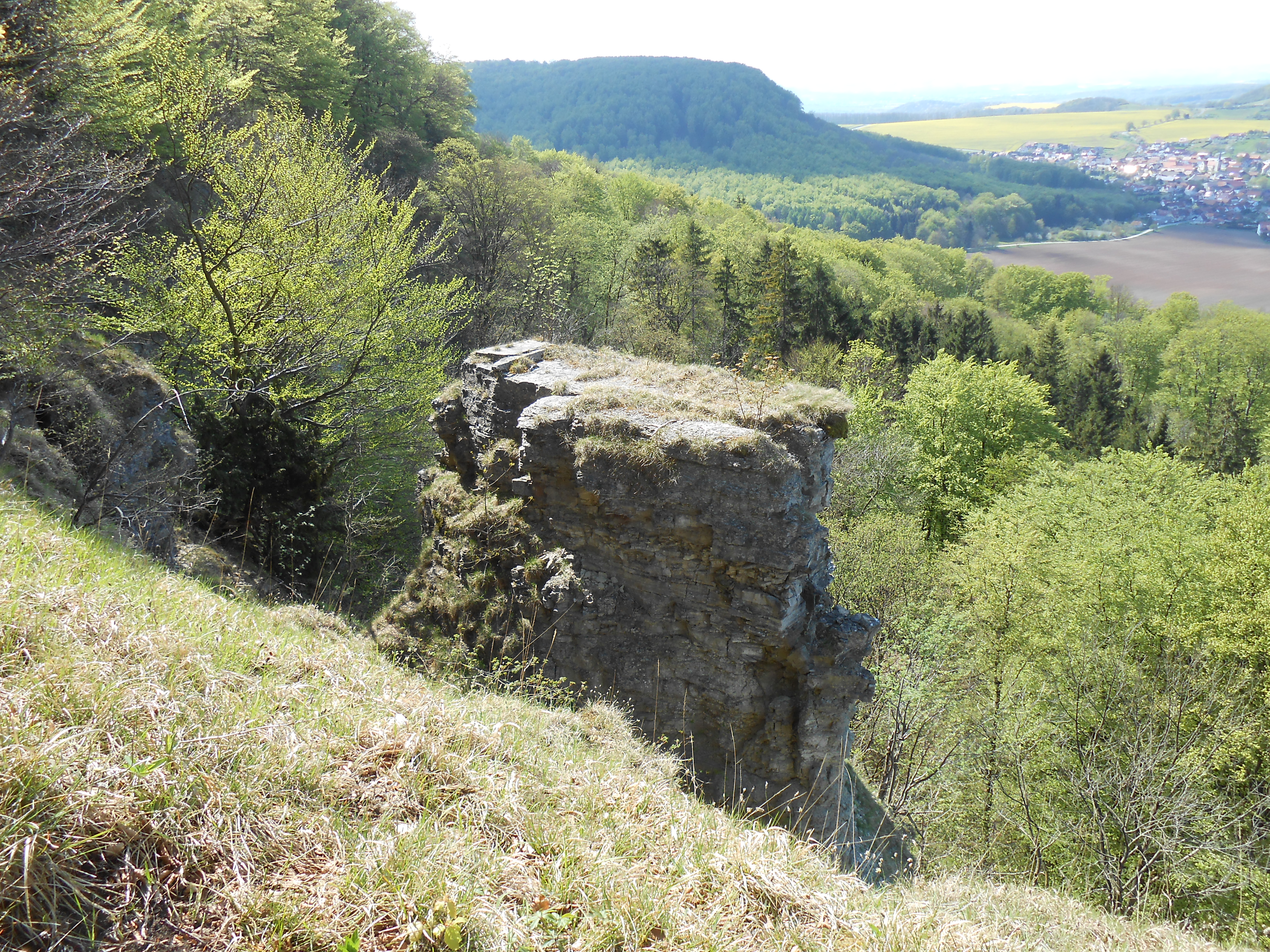 Am Ohmberg - Wilde Kirchen